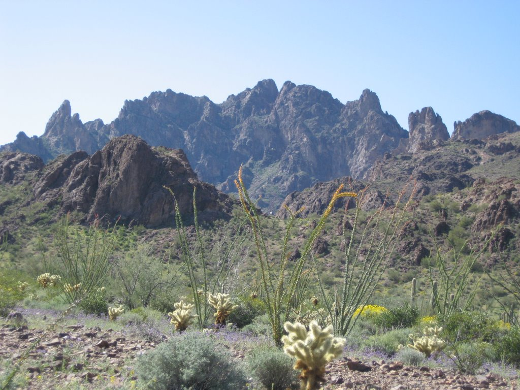 Kofa Mountains, southwestern Arizona